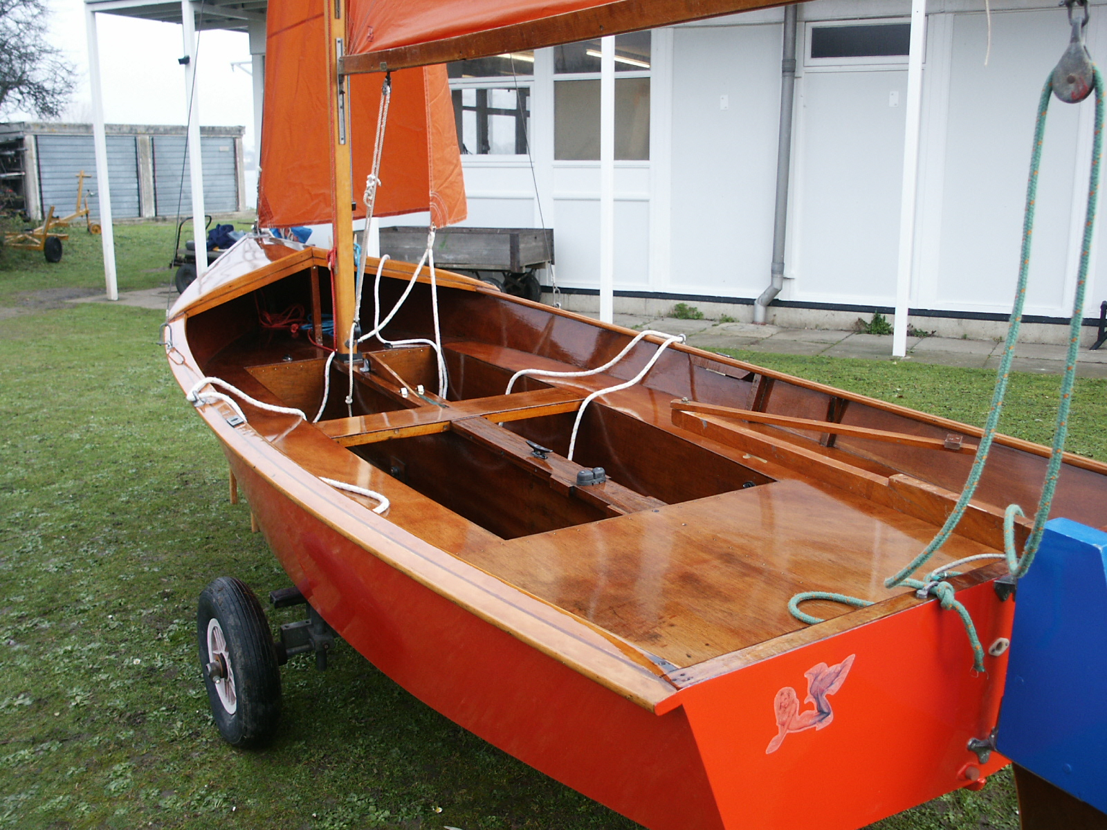 Mermaid 137 after restoration 2008